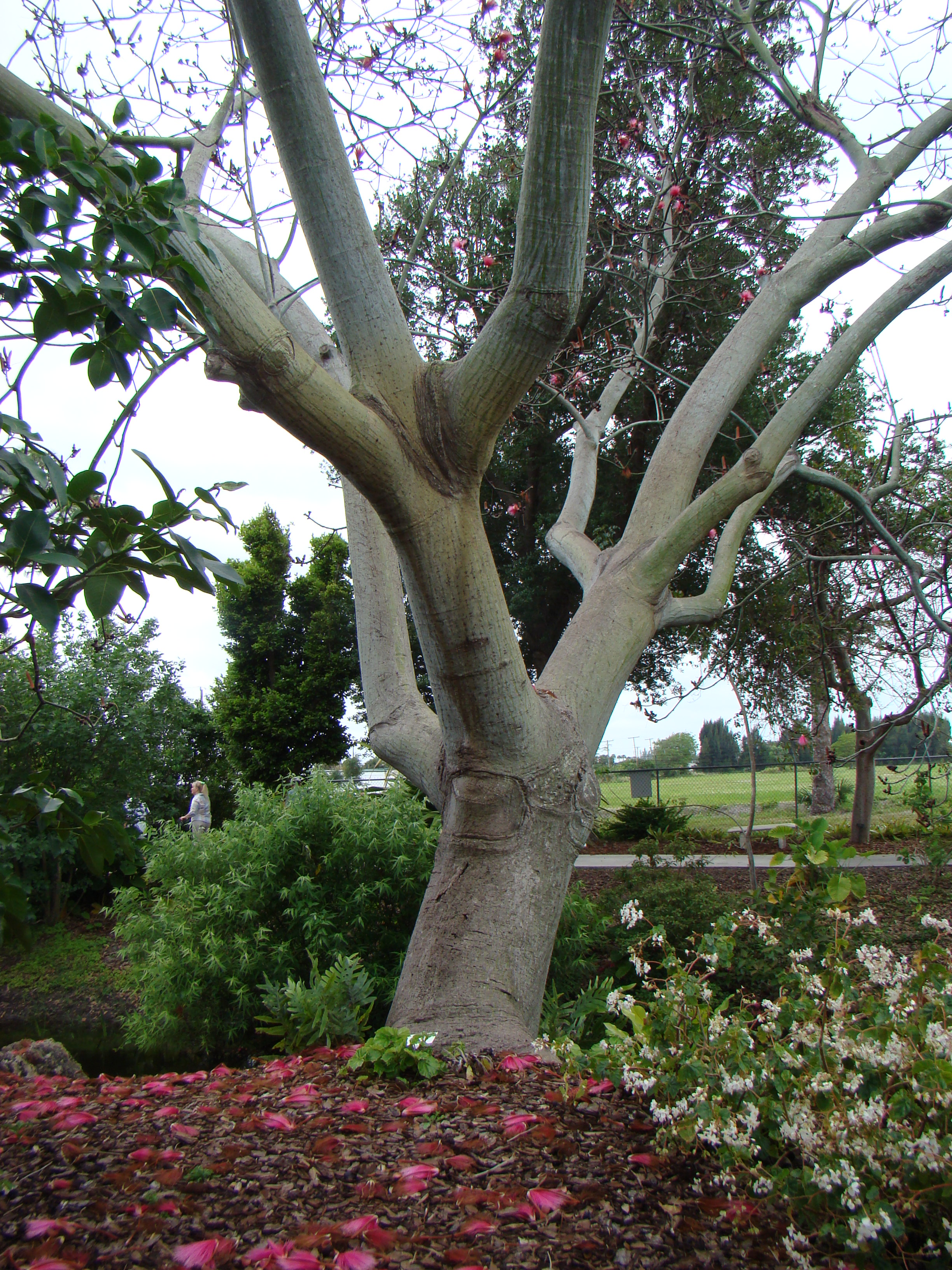 The tree and the spent flowers at the base of a gigantic Shaving Brush (Pseudobombax ellipticum / Bombacaceae) tree in the Mounts Botanical Garden, West Palm Beach, Florida.